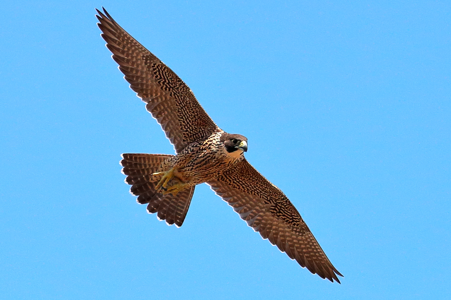 Lake Burrumbeet. Victoria.